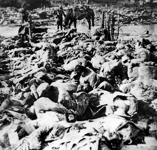 Photo of The "Shame" Album, showing the atrocities committed by the Japanese in Nanjing Massacre. It was one of the 16 photos preserved by a Chinese working in a photostudio at that time.